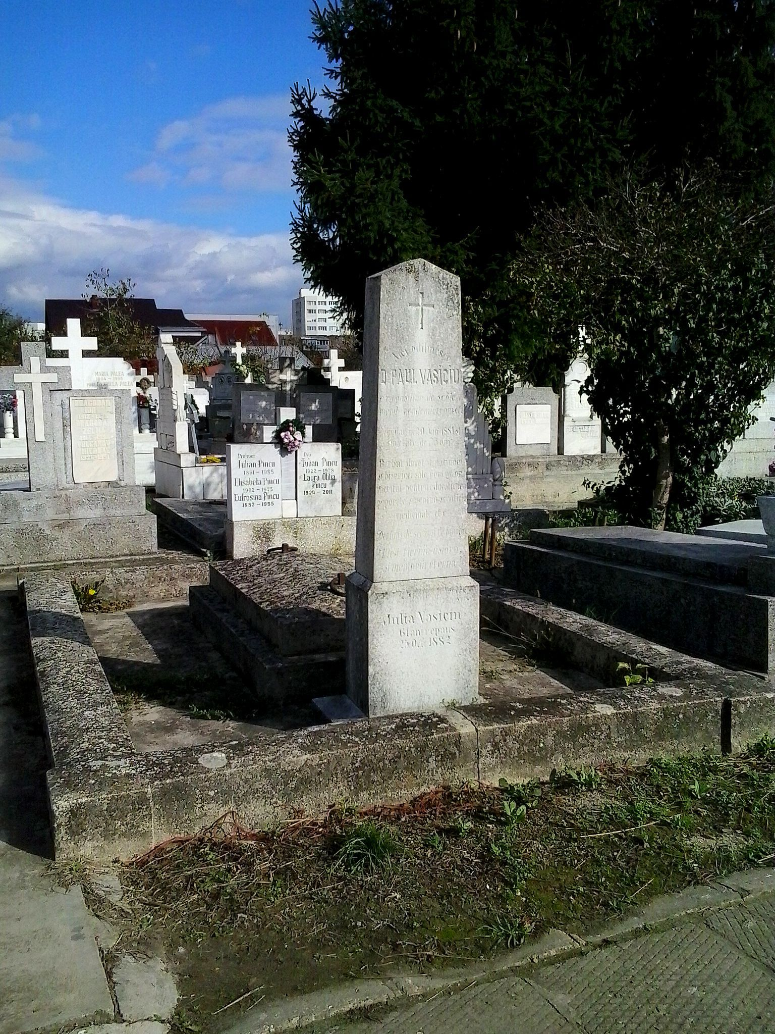 Tomb of Paul Vasici, TImișoara, Romania